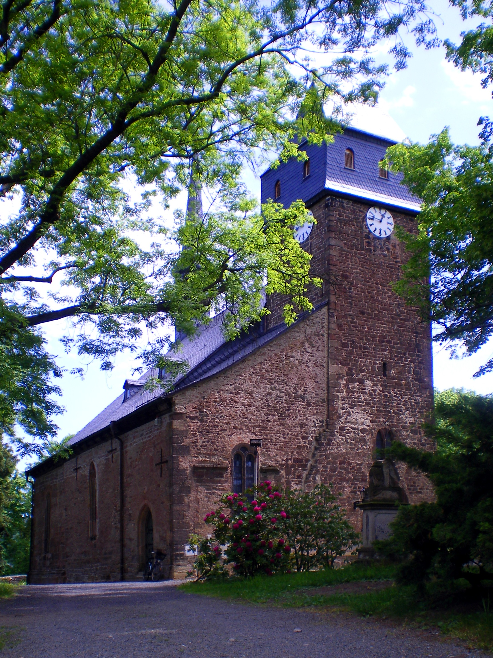 Church St. Veit in Wünschendorf/Elster near Gera/Thuringia